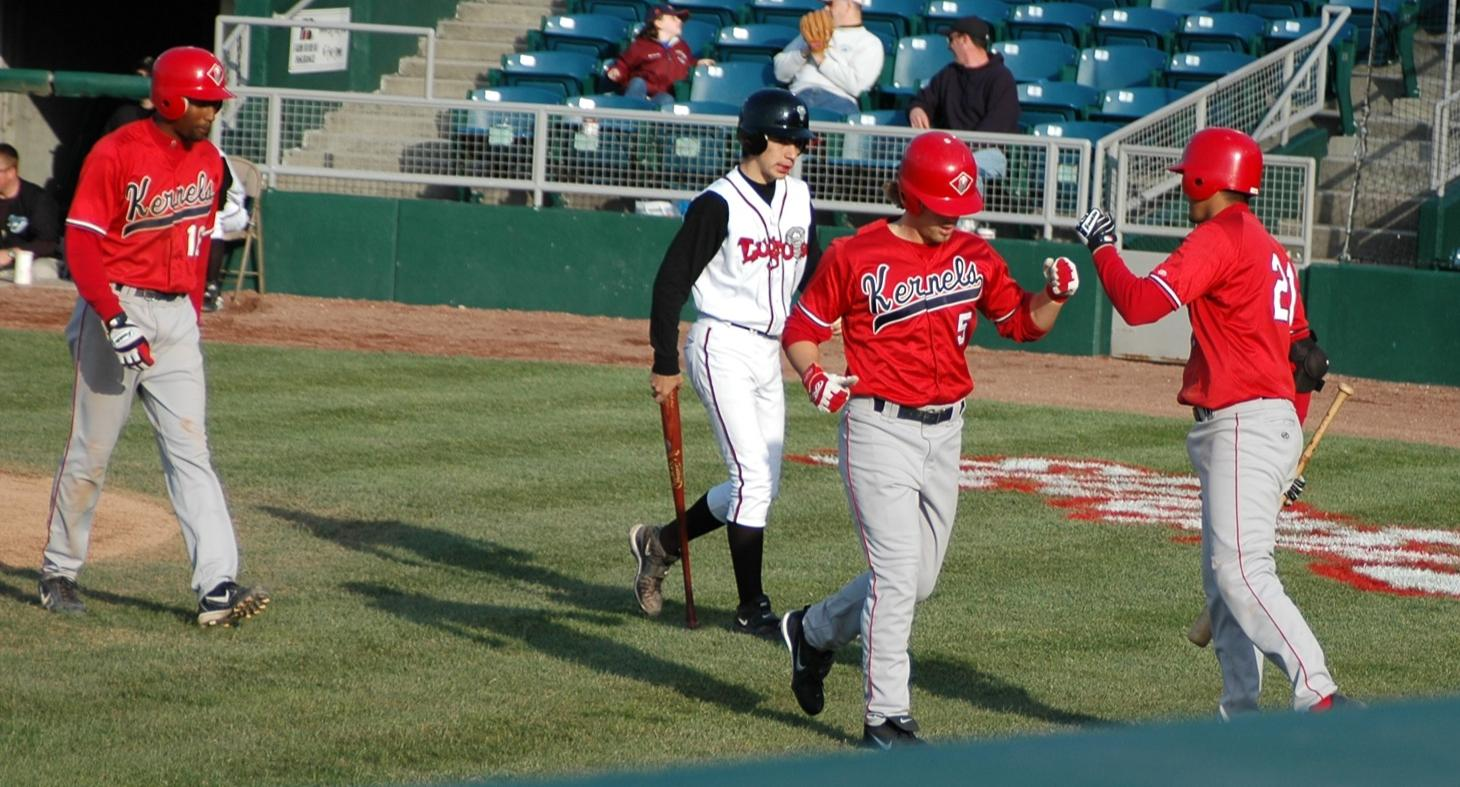 Image of a batboy (in white) for the Lansing Lugnuts in a game against the Cedar Rapids Kernels.